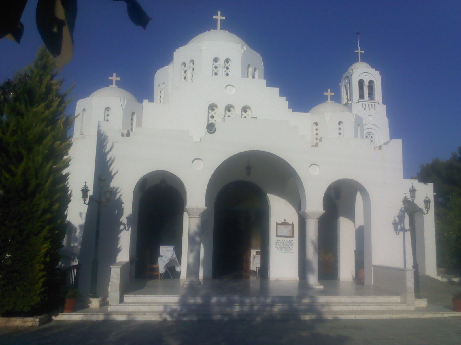 Church Koimisis Theotokou Mati